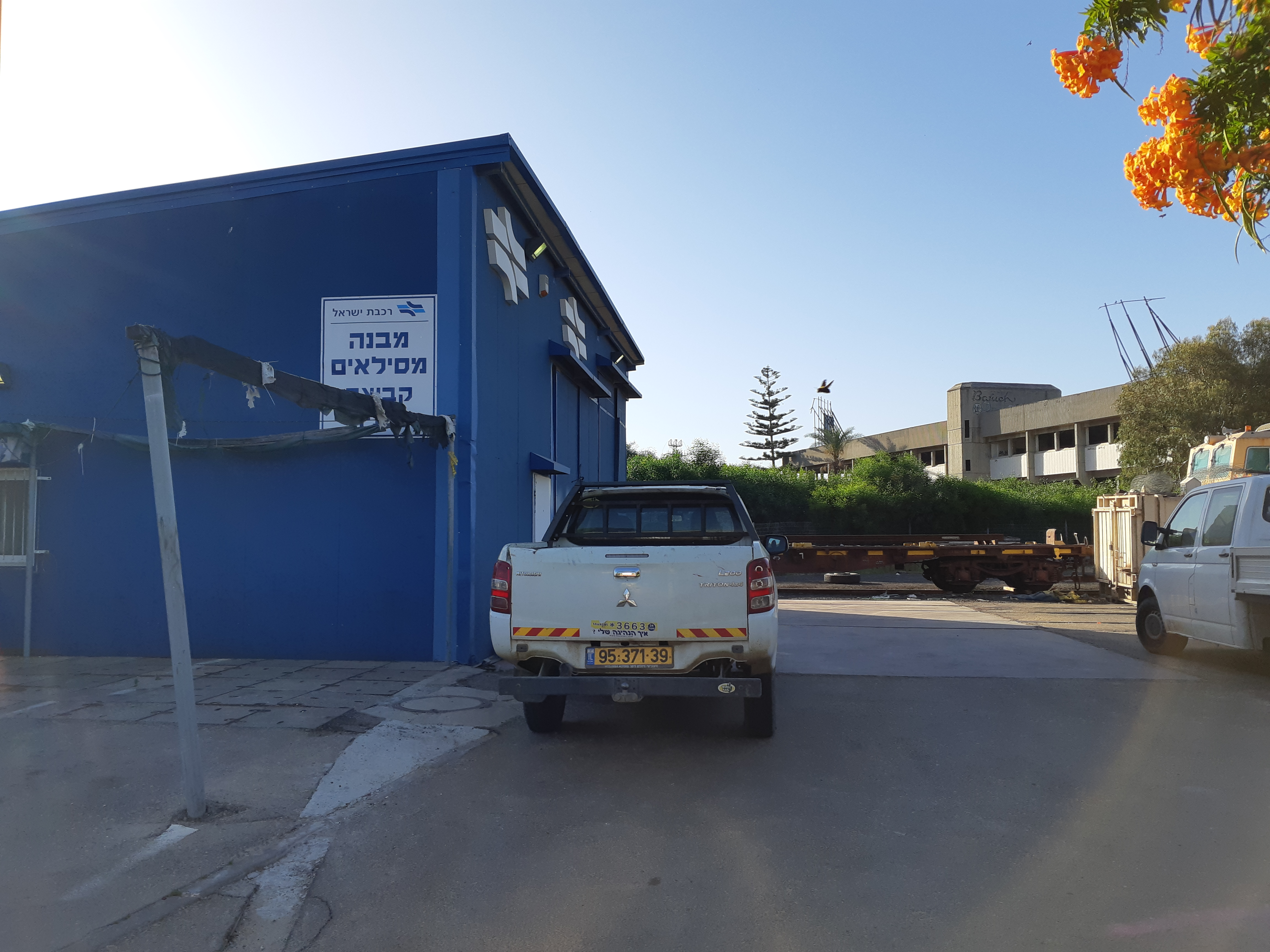 Netanya Railway Station Mesilaim Building